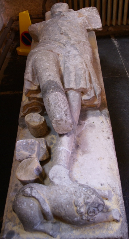 Dornoch Cathedral, Dornoch, Highland, Scotland - effigy of Sir Richard de Moravia